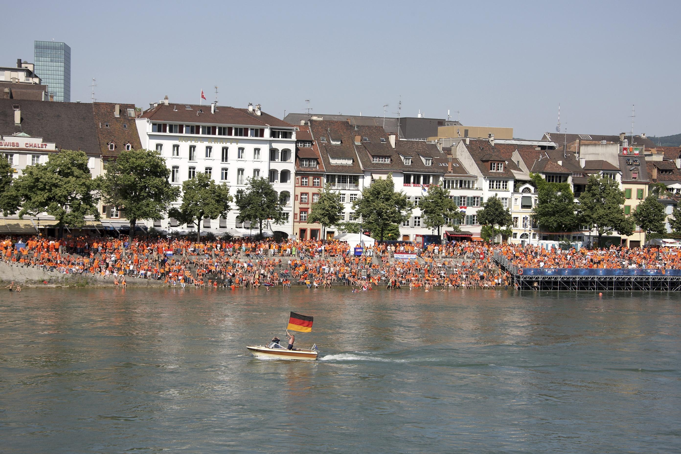 Picture taken in Basel in 2008. GPS-Position of camera: 47.559341, 7.588974